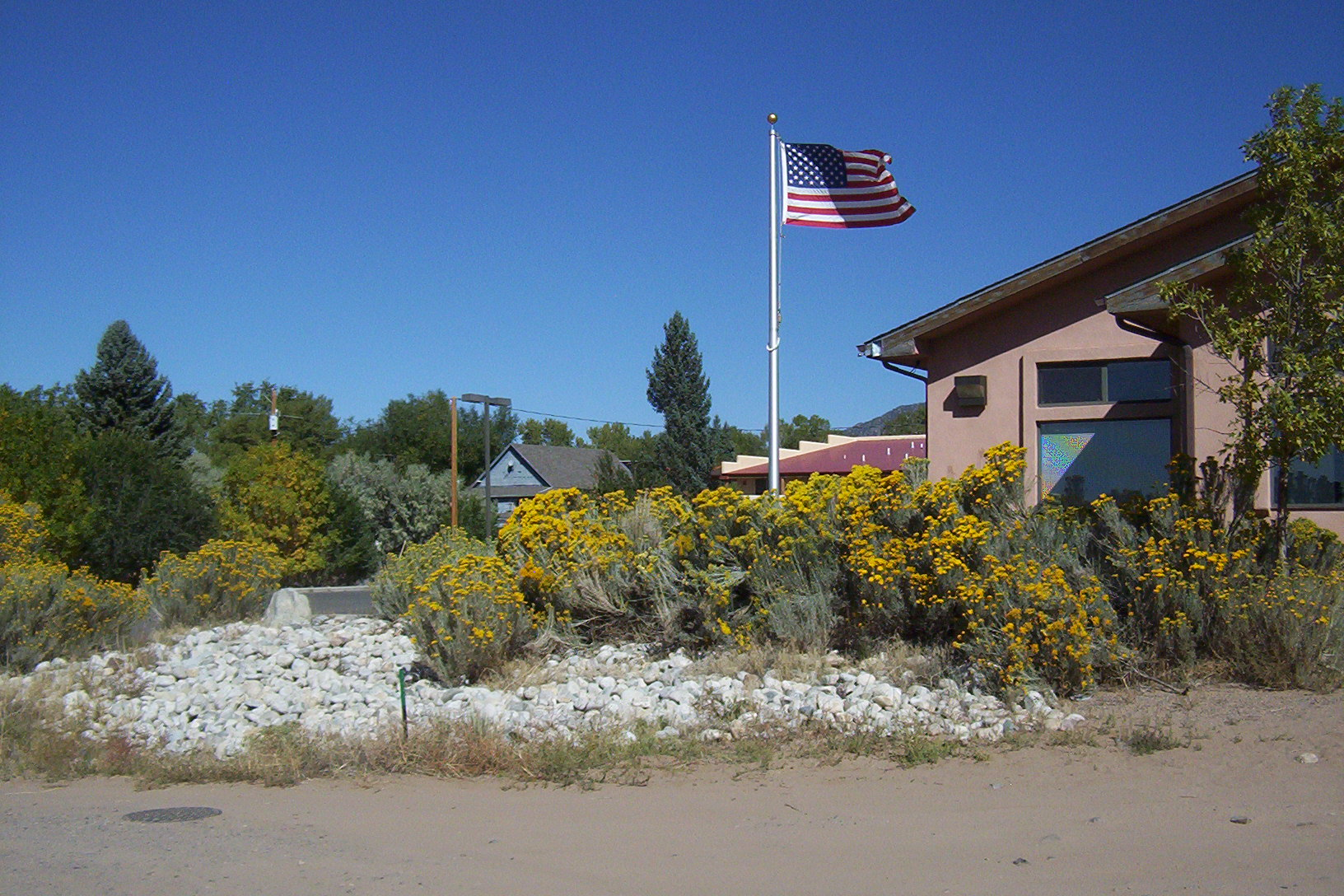 Post office in Crestone, Colorado showing use of Rabbitbrush, Chrysothamnus nauseosus, as a xeriscaping plant. The plant illustrated is not the native rabbitbrush of the area which is shown in File:NativeRabbitBush.JPG taken of native rabbitbrush a few feet to the east.